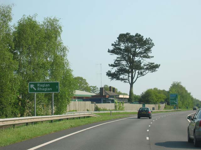 Raglan Station. Now part of a road servicing depot - the A40/A449 between Monmouth and Usk is built around the route of the railway from Pontypool to Coleford.